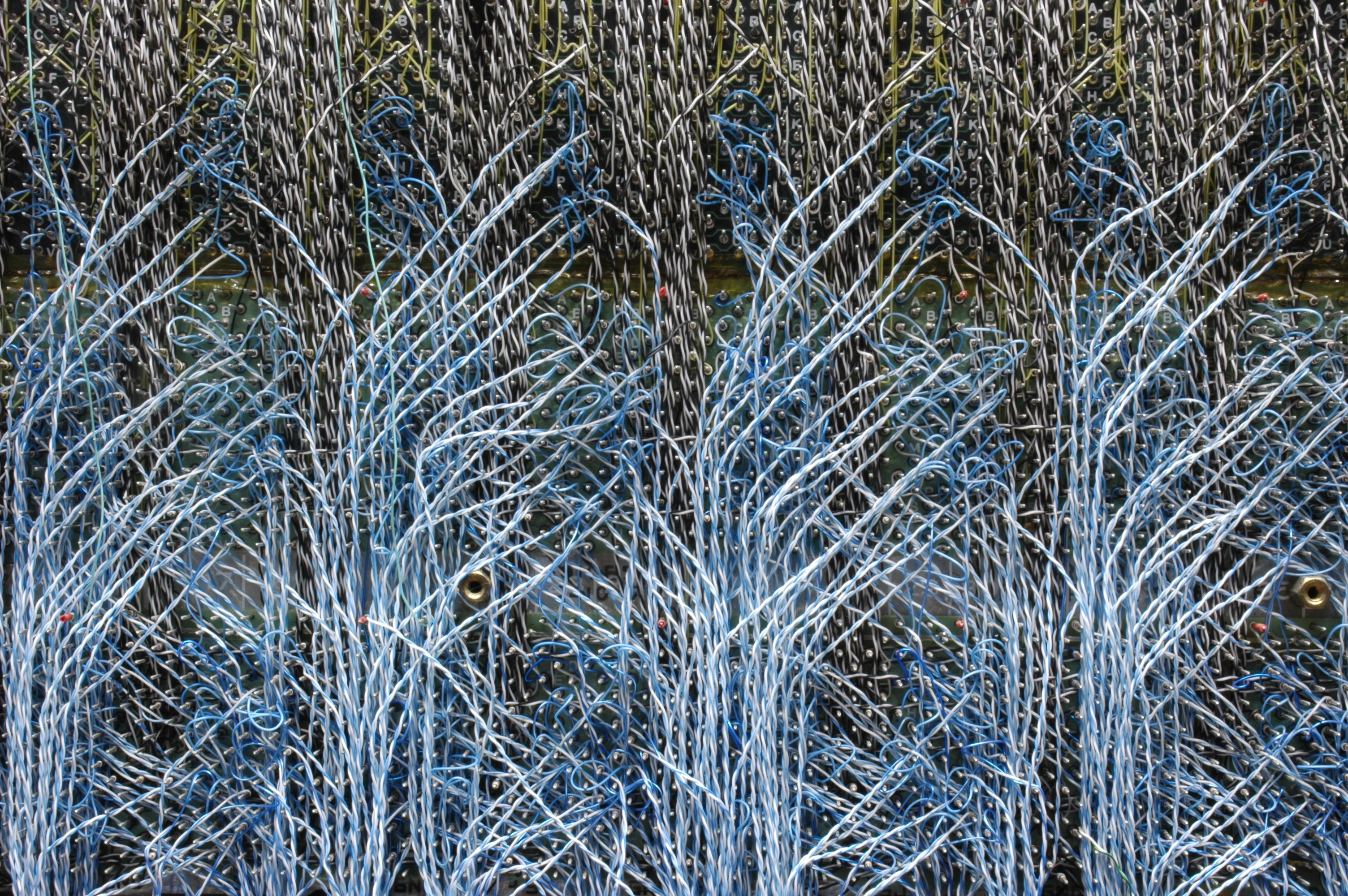 KL10 wire-wrapped backplane. From the collection of the RCS/RI.